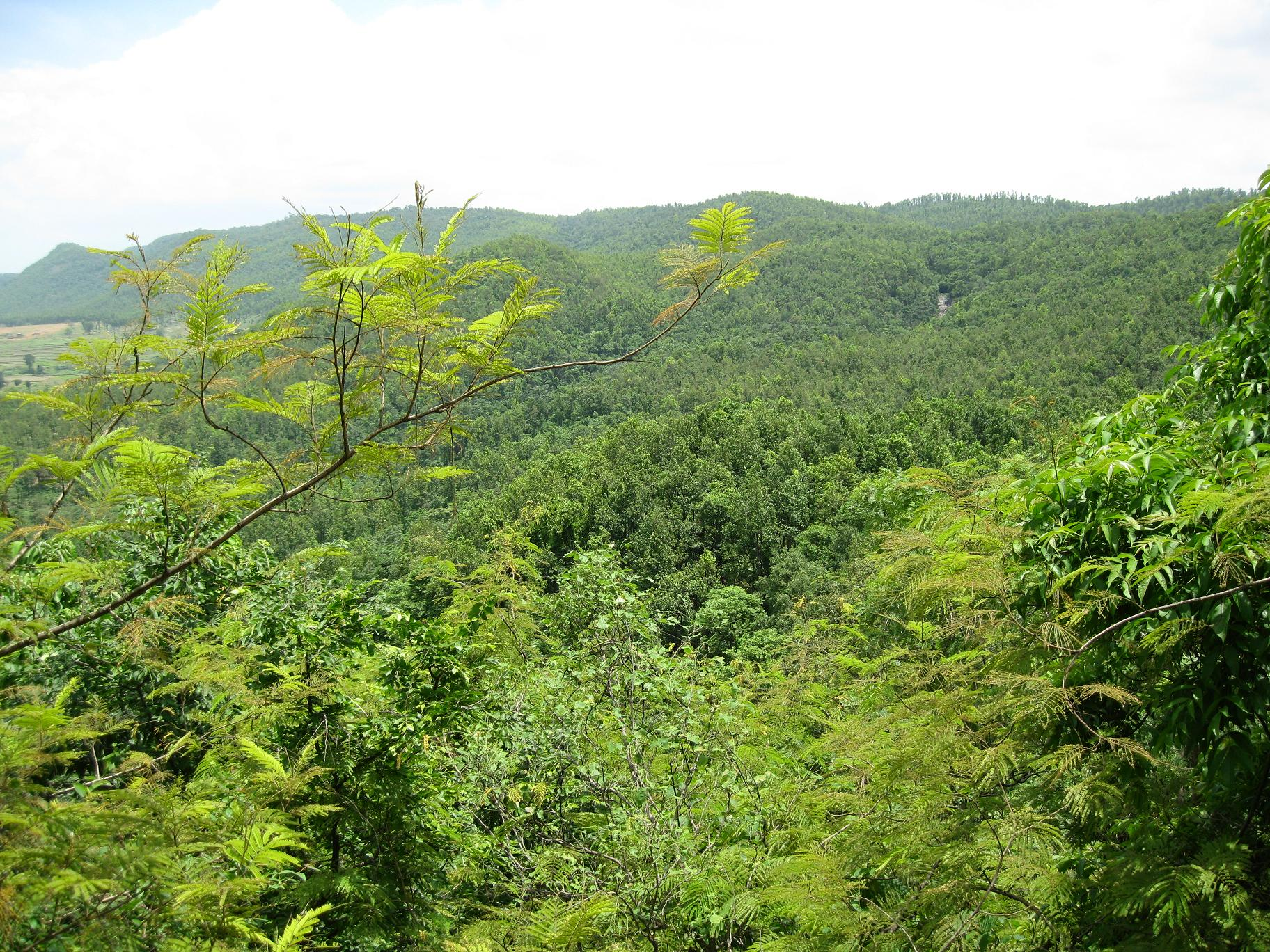 A view from Ramgarh Mountain Pass from Hazaribag to Ranchi